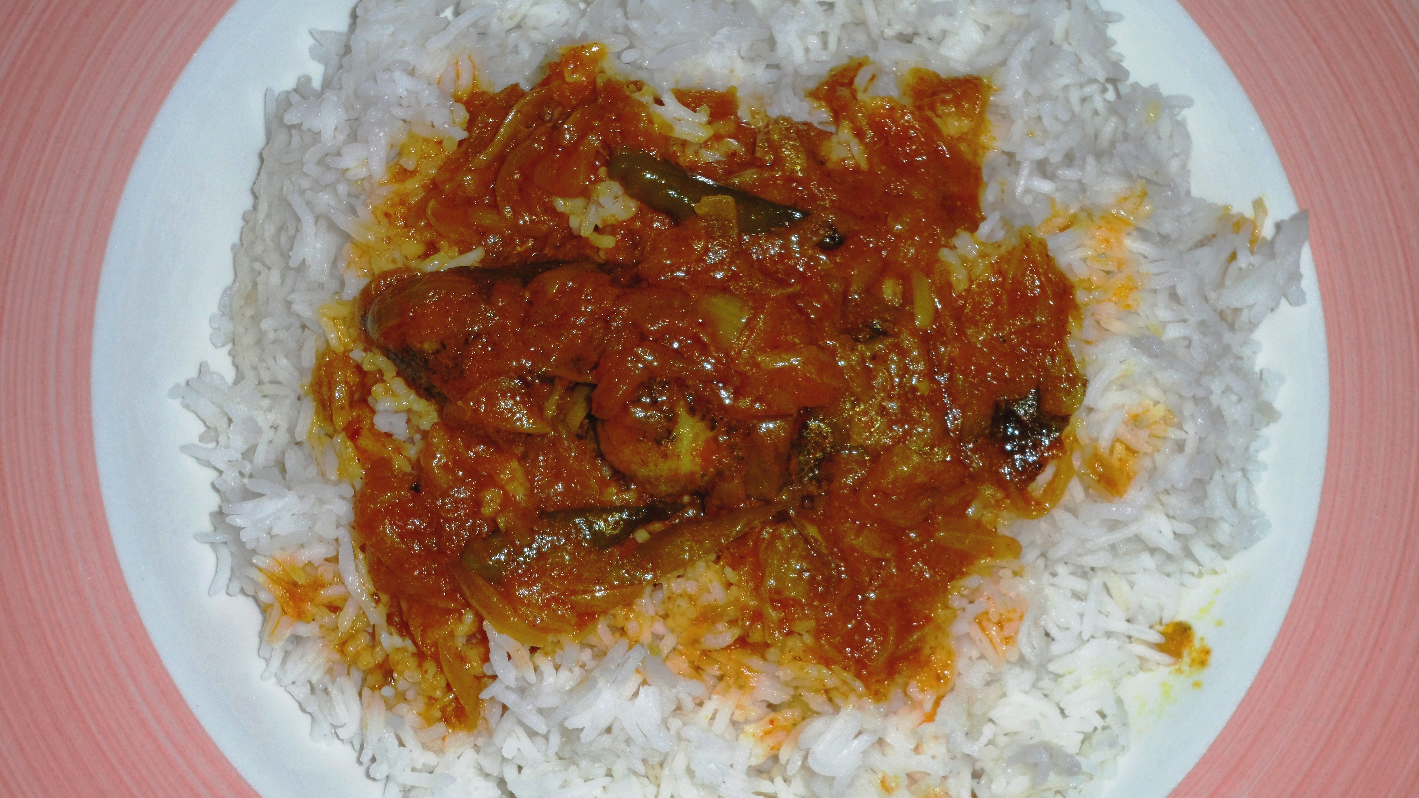 Anabas testudineus (rice and curry)